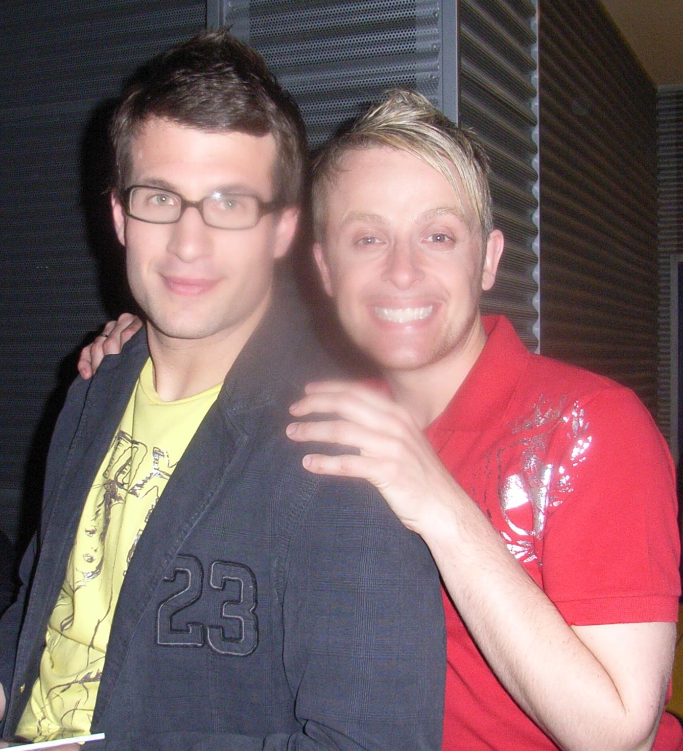 Daniel Hartwich and Ross Antony